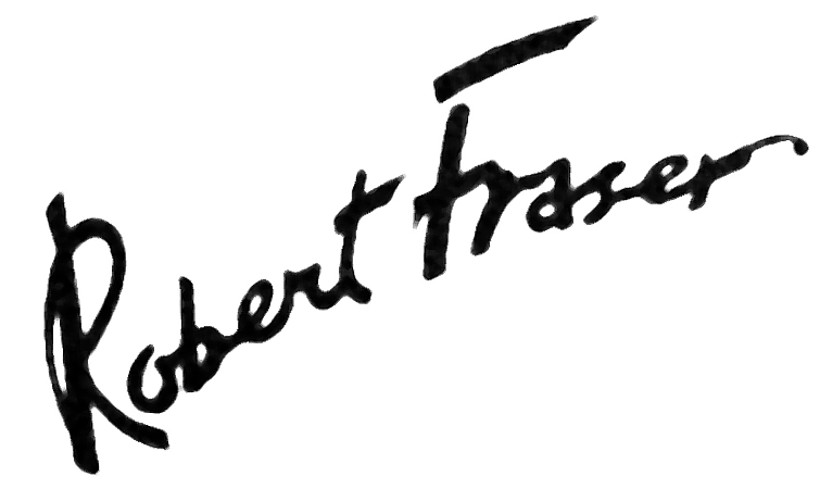 Robert Fraser Logo Cork Street London